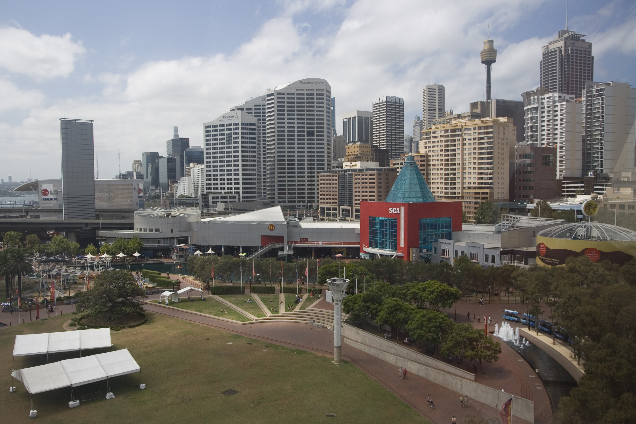 Tumbalong Park and Sydney CBD on background